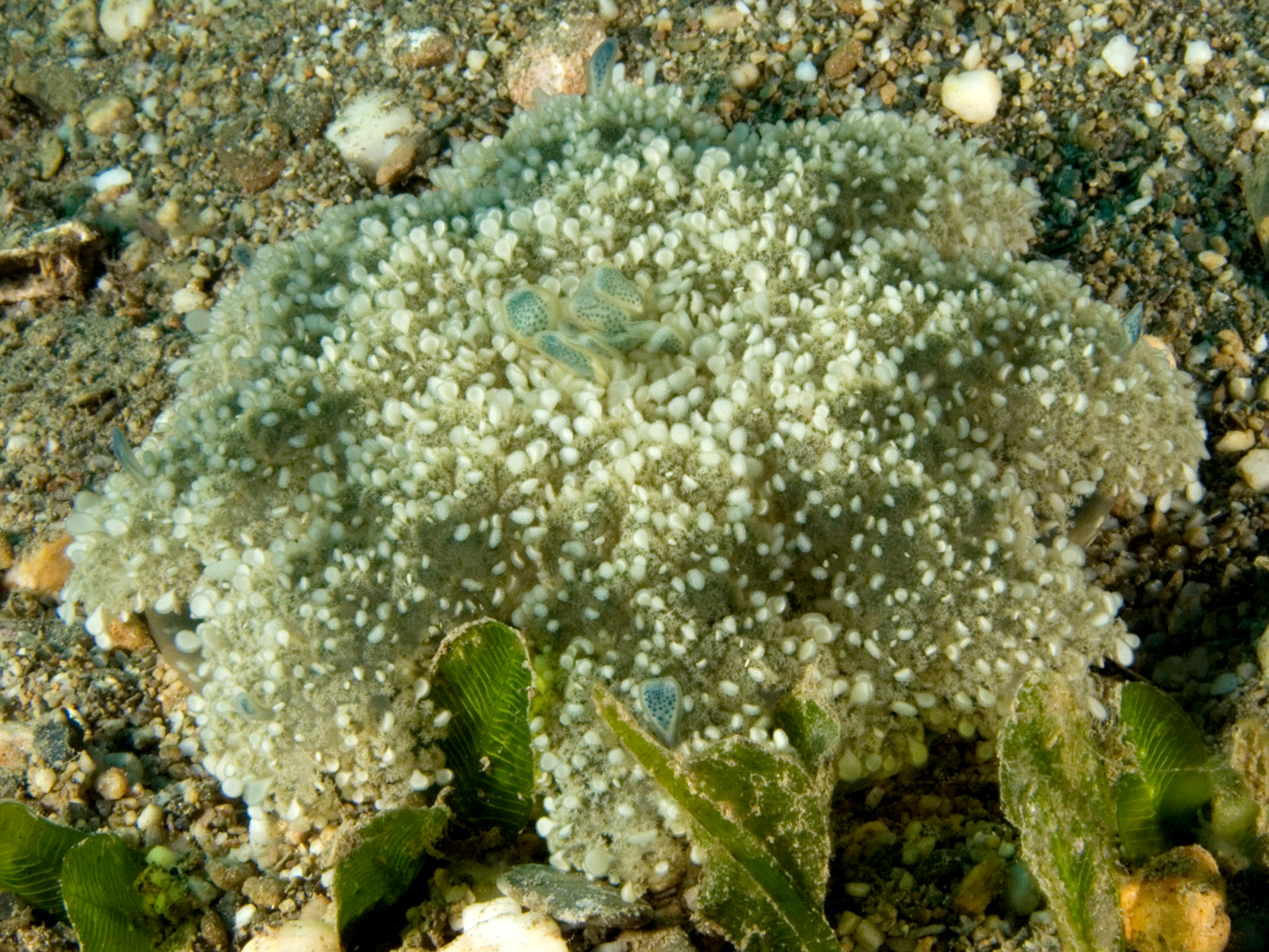 Cassiopeia andromeda (Upside-down jellyfish)